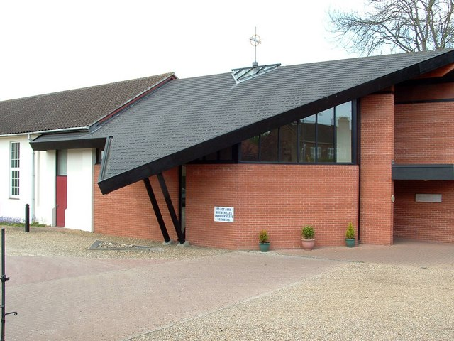 Wymondham Catholic Church and FEPOW memorial This church is a memorial to Far East Prisoners of War.